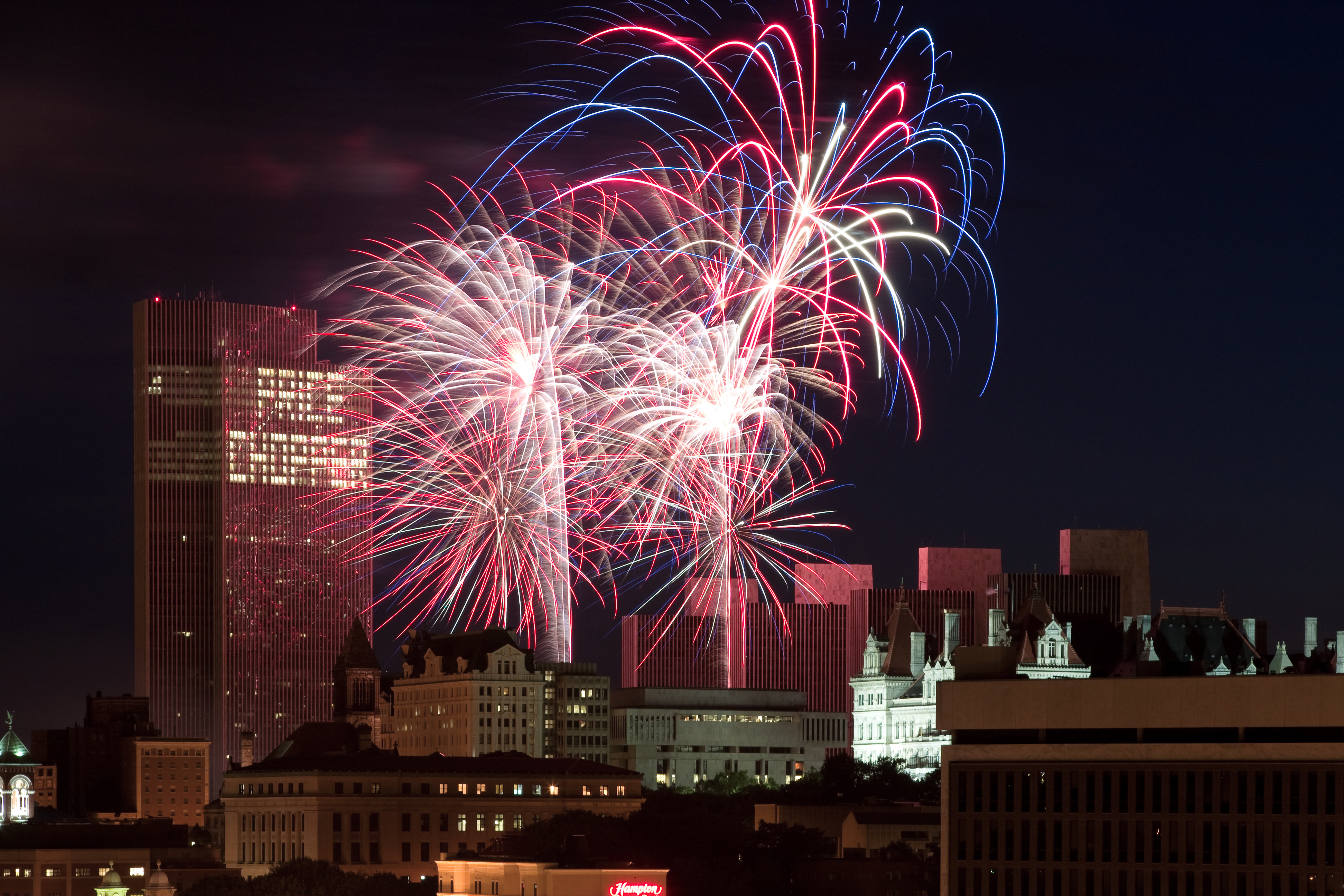 The Price Chopper Fabulous Fourth and Fireworks Festival at the Empire State Plaza in Albany, New York, United States celebrating US Independence Day